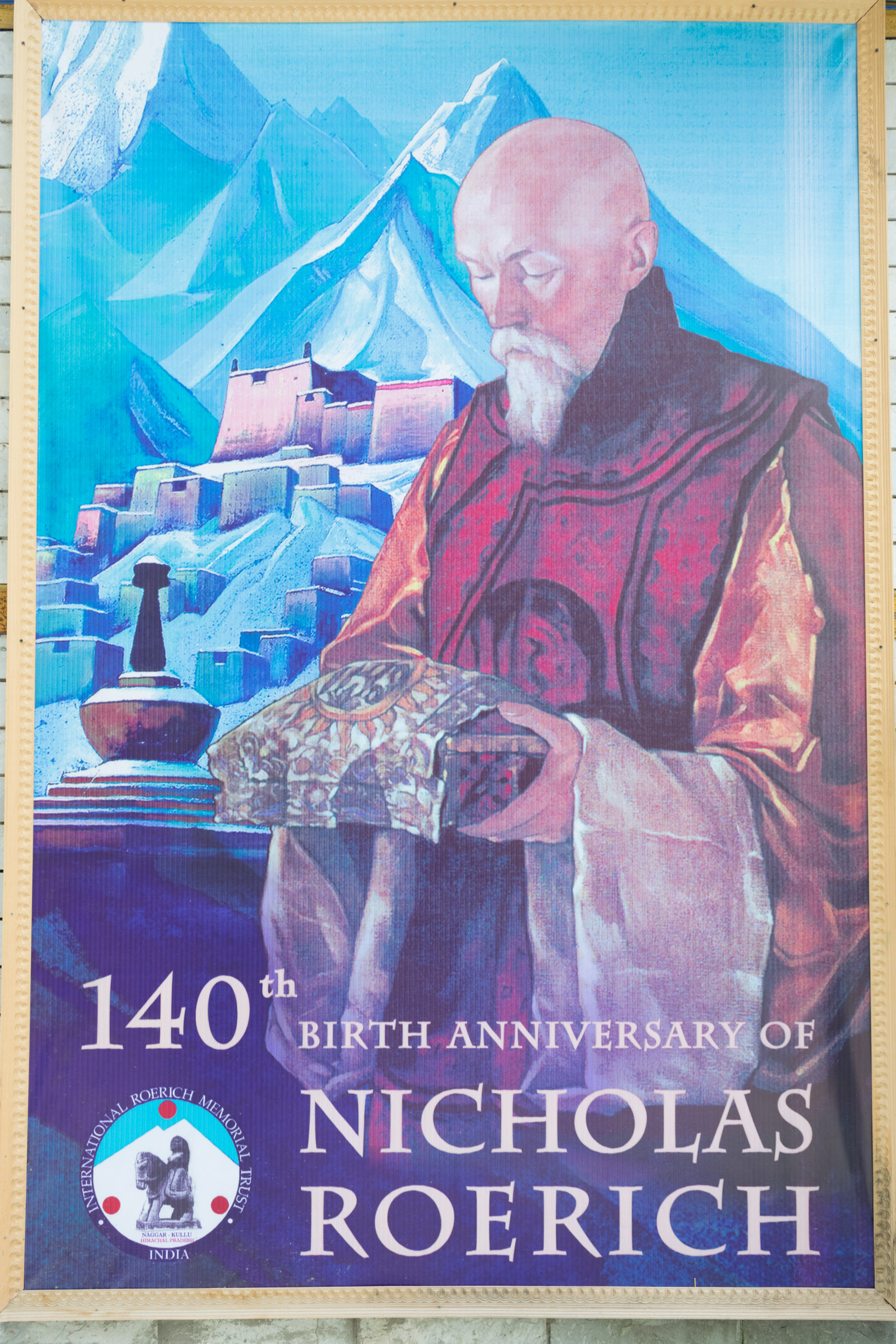 Painting by Nicholas Roerich. Found this banner outside the Hall Estate. Not sure of when the anniversary was, but the banner sure looks royal!